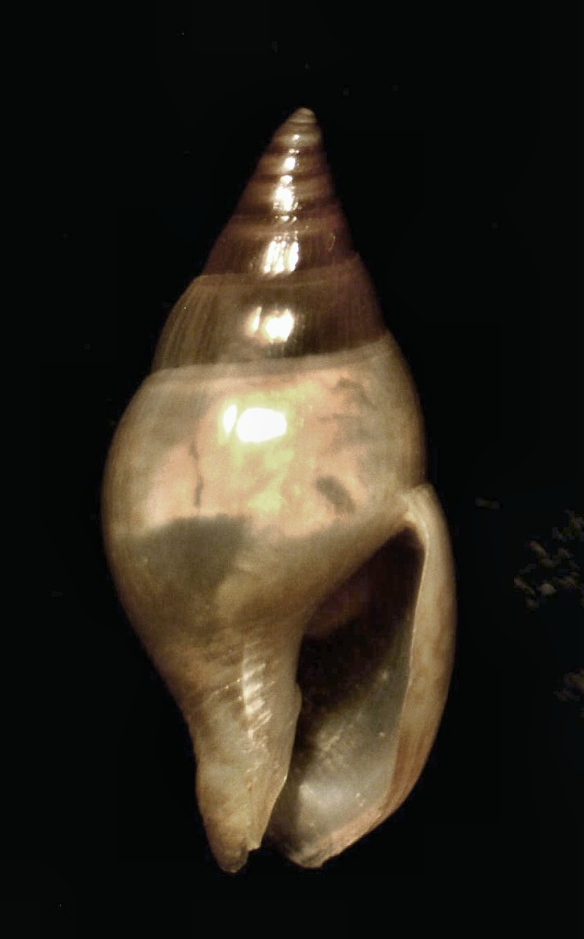 Zafrona idalina, a dove snail in the family Columbellidae